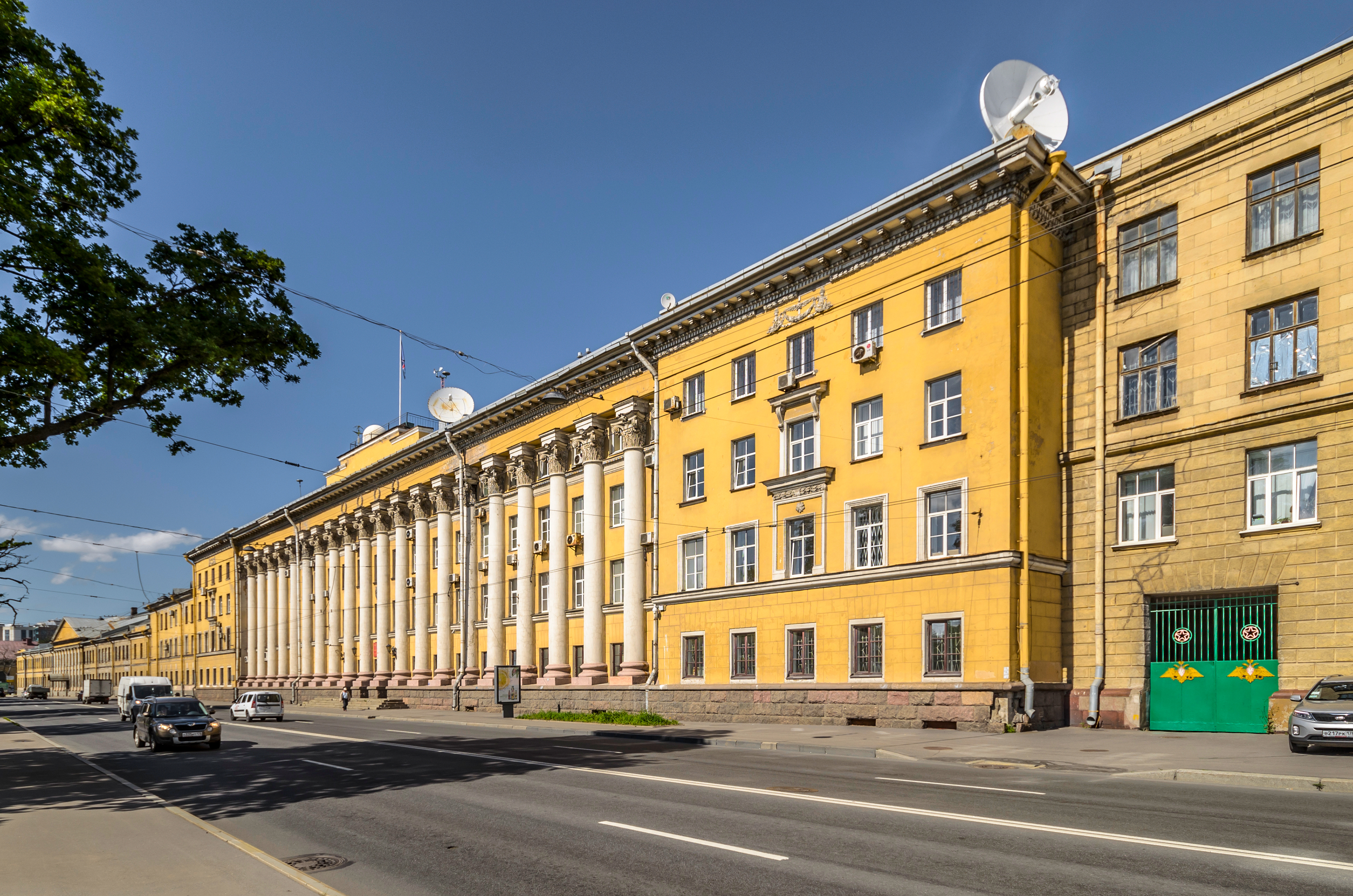 Mozhaisky Military Space Academy at Zhdanovskaya Street in Saint Petersburg